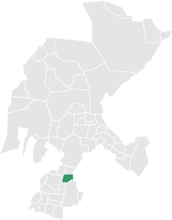 Map of the Municipality of Huanusco in Zacatecas, México.